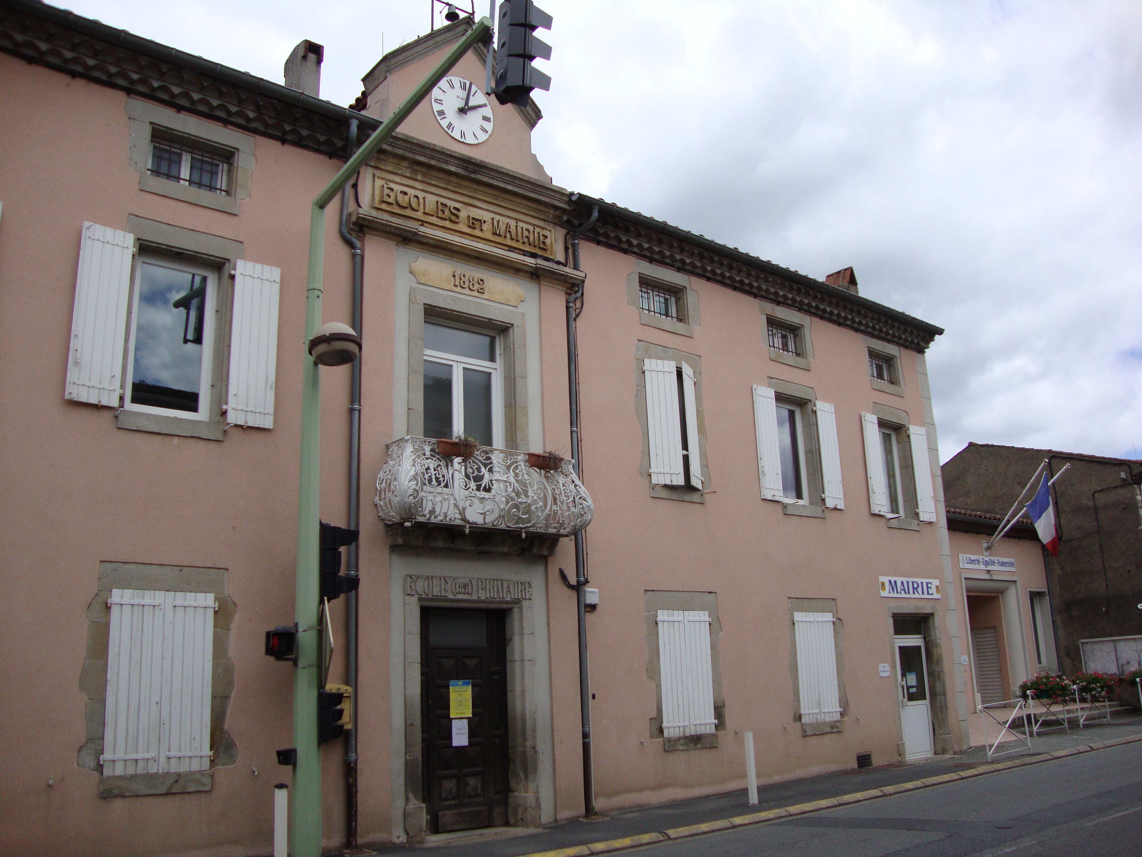 Valdurenque (Tarn, Fr) schools and town hall